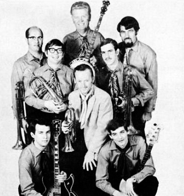 Trade ad for Danny Davis and the Nashville Brass's single "Columbus Stockade Blues". To better adapt it to his respective Wikipedia article, the ad was cropped and cleaned in a graphics editing program. The original can be viewed at the source below.